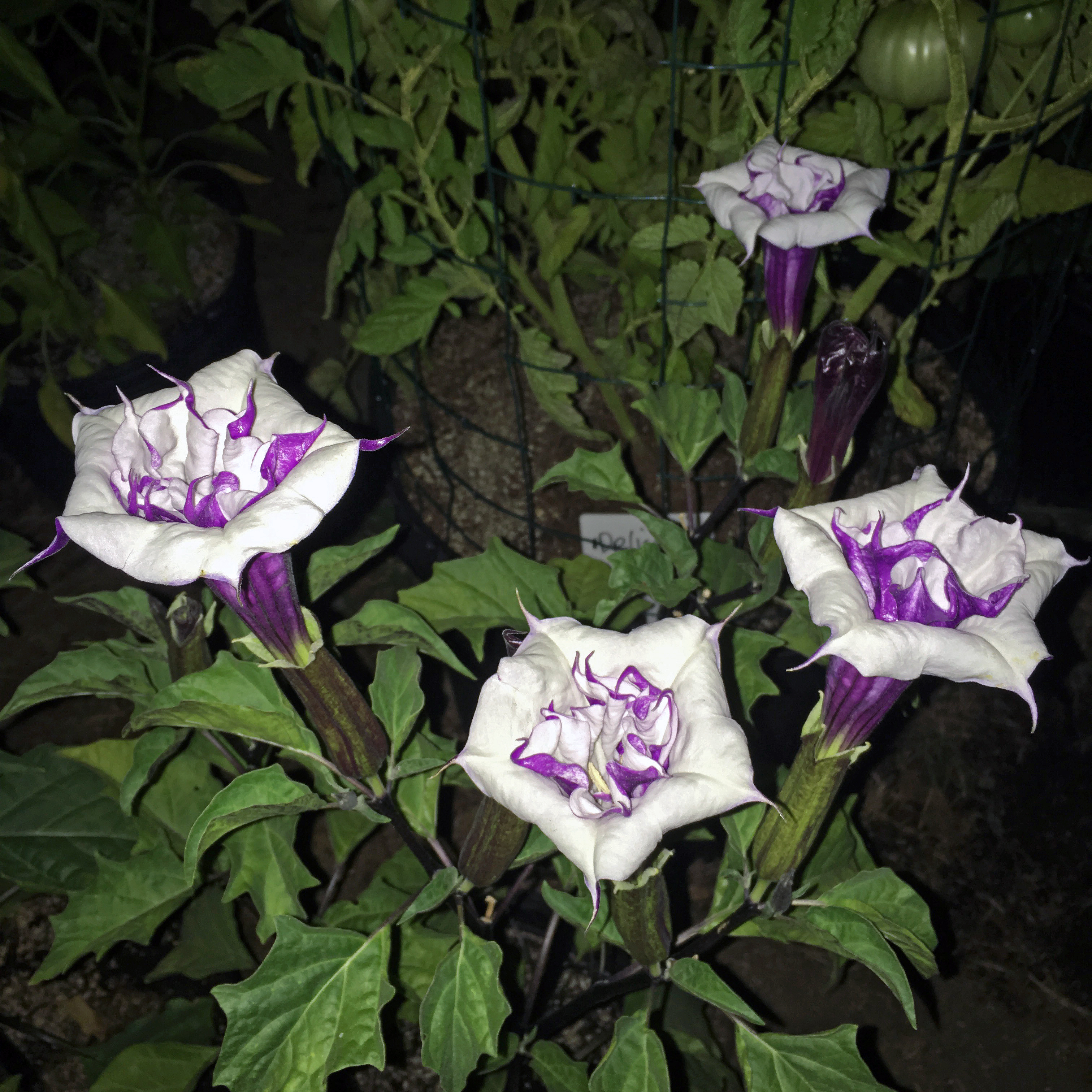 Datura 'Blackcurrant Swirl' at night, on August 10, 2017 in Santa Rosa, Ca. Also known as Datura metel 'Fastuosa.'